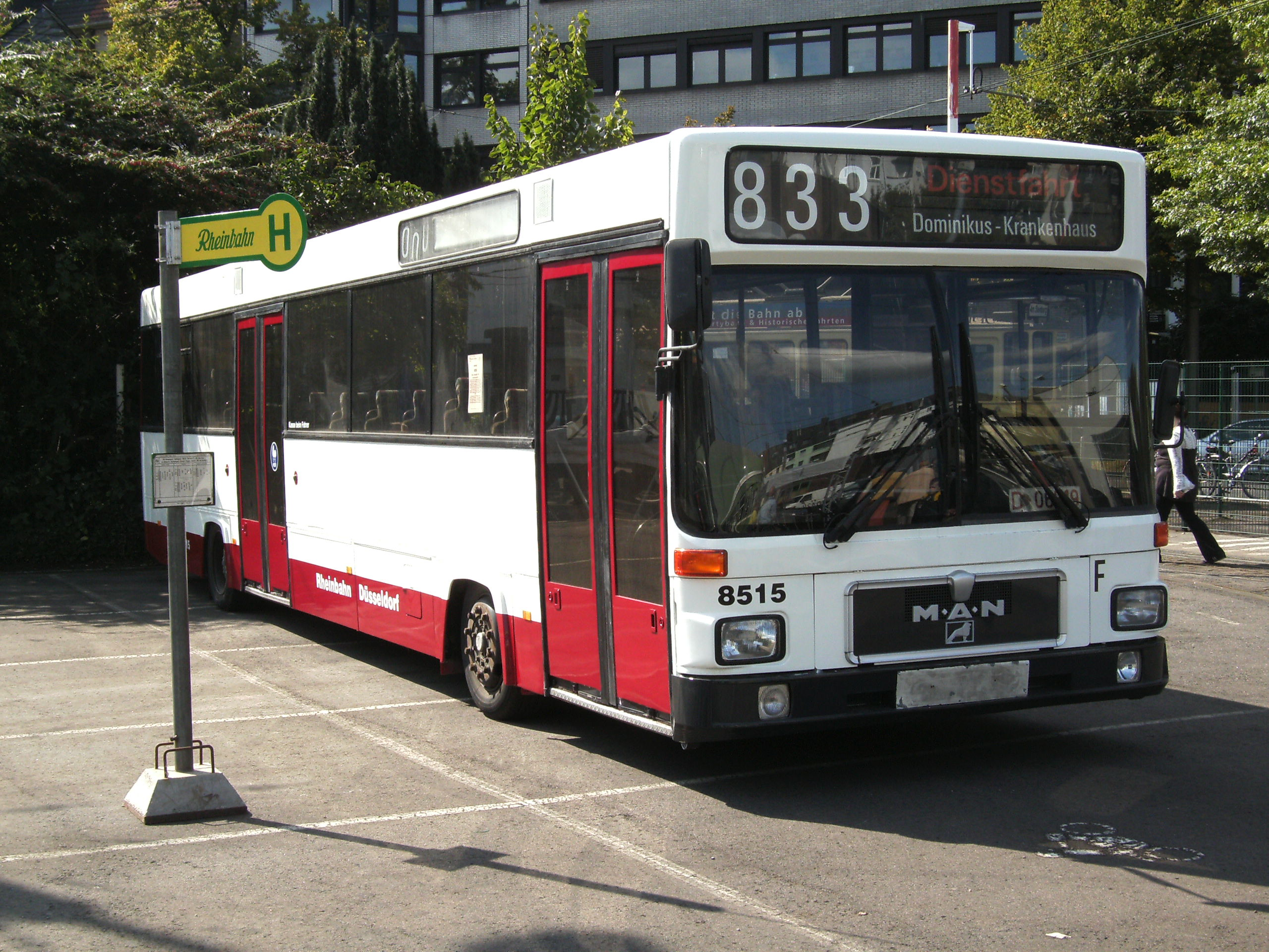 The MAN S 80, built in 1979, were a bus type with low floor ground and smaller wheels. Ths bus type was meant to introduce a complete new type of public bus transport. However, this buses has been sold to other bus companies, the bus with former number 8515 has been resold to the public transport society "Linie D" and so this bus could be seen on this day at the tram depot "Am Steinberg".